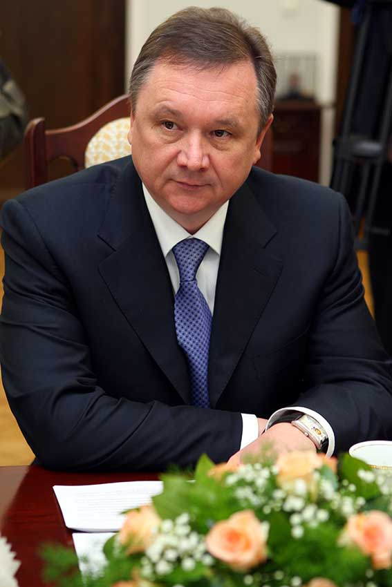 Prime Minister of Kyrgyzstan Igor Chudinov in the Polish Senate